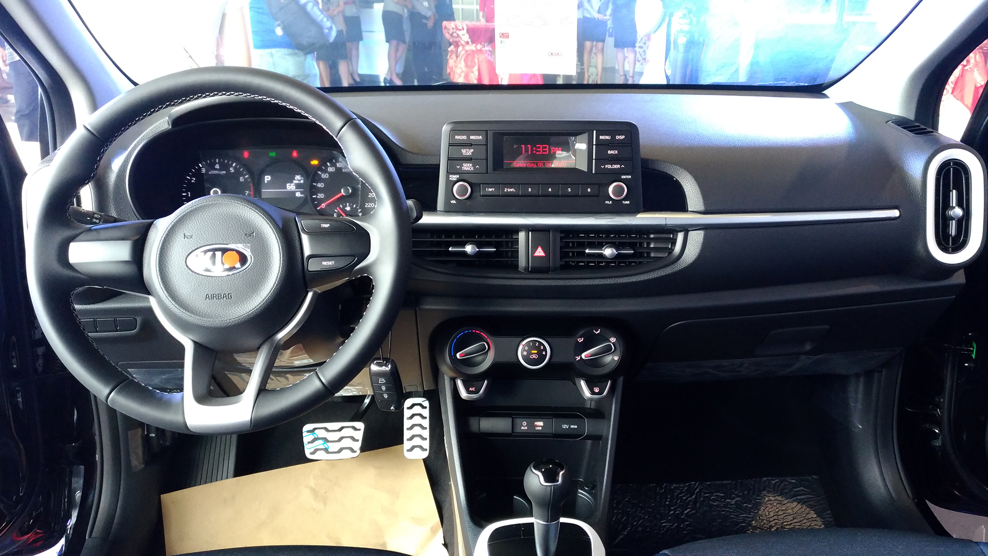 Photographed at Kia Pampanga in San Fernando, Pampanga, Philippines.